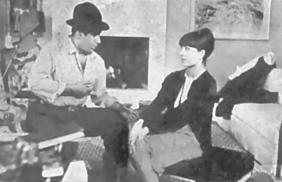 Nikval Parashu and Nasser Malekmati'i in Abram dar Paris, Esmail Kushan, 1964 (screenshot)